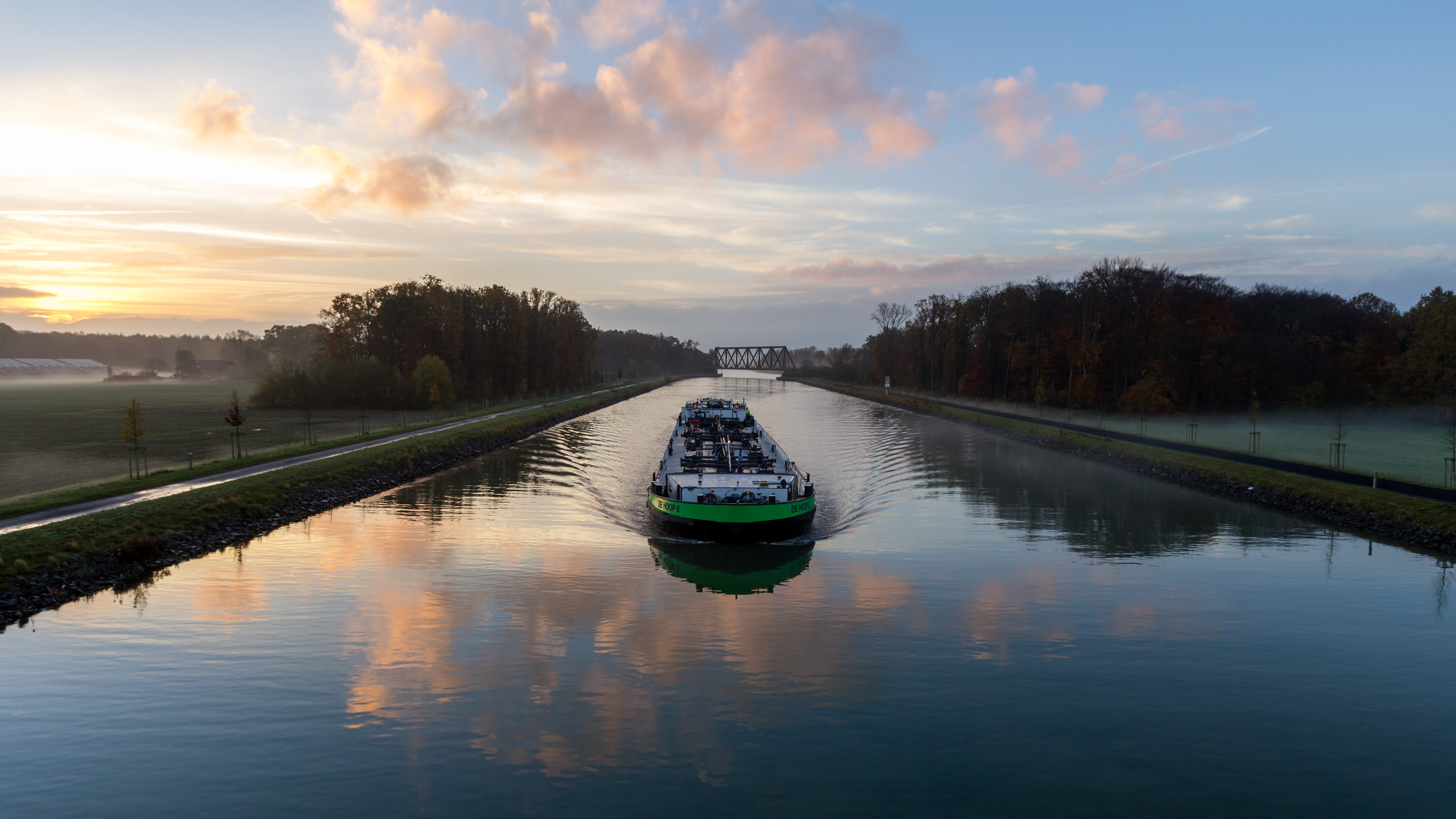 Dortmund-Ems Canal (from the bridge of the county road 23) in the hamlet Berenbrock, Lüdinghausen, North Rhine-Westphalia, Germany